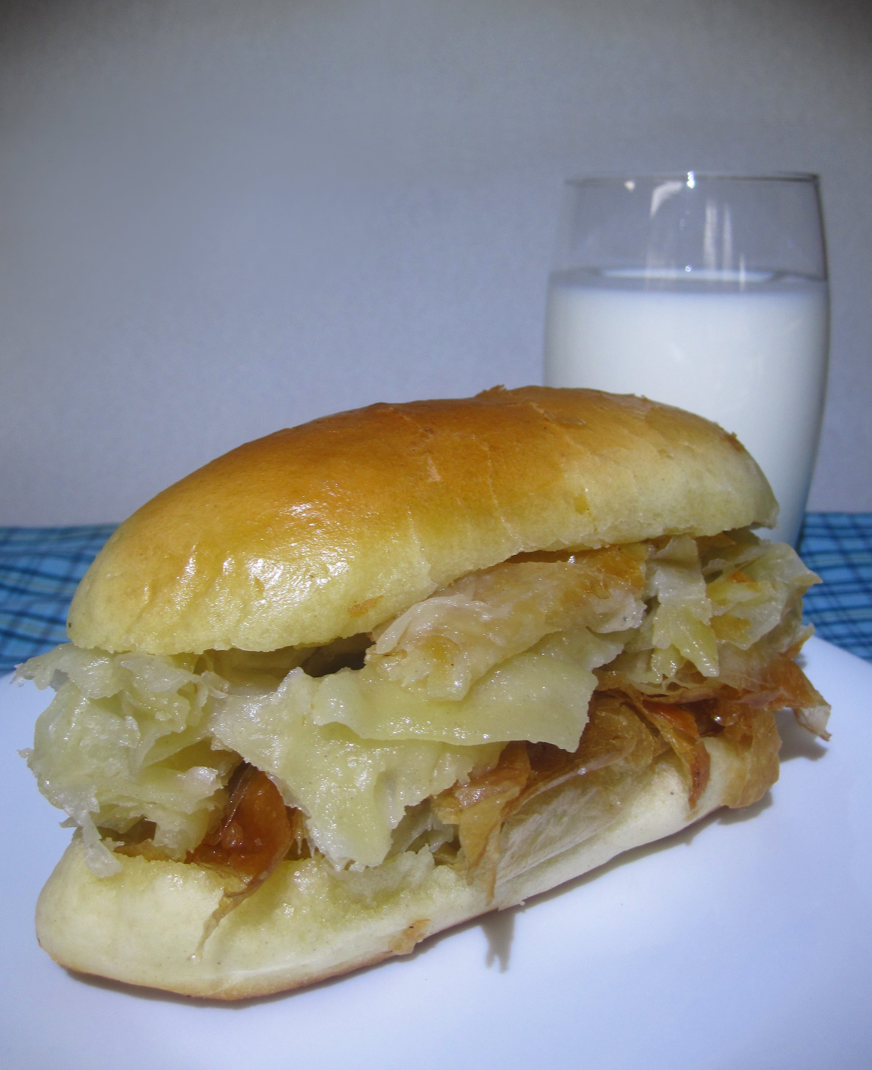 Skopje specialty, simit pogacha that is kinda bread with bread. It is a bun sandwich with greasy pie without any filling (similar to burek).